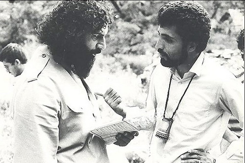 jangaliha5